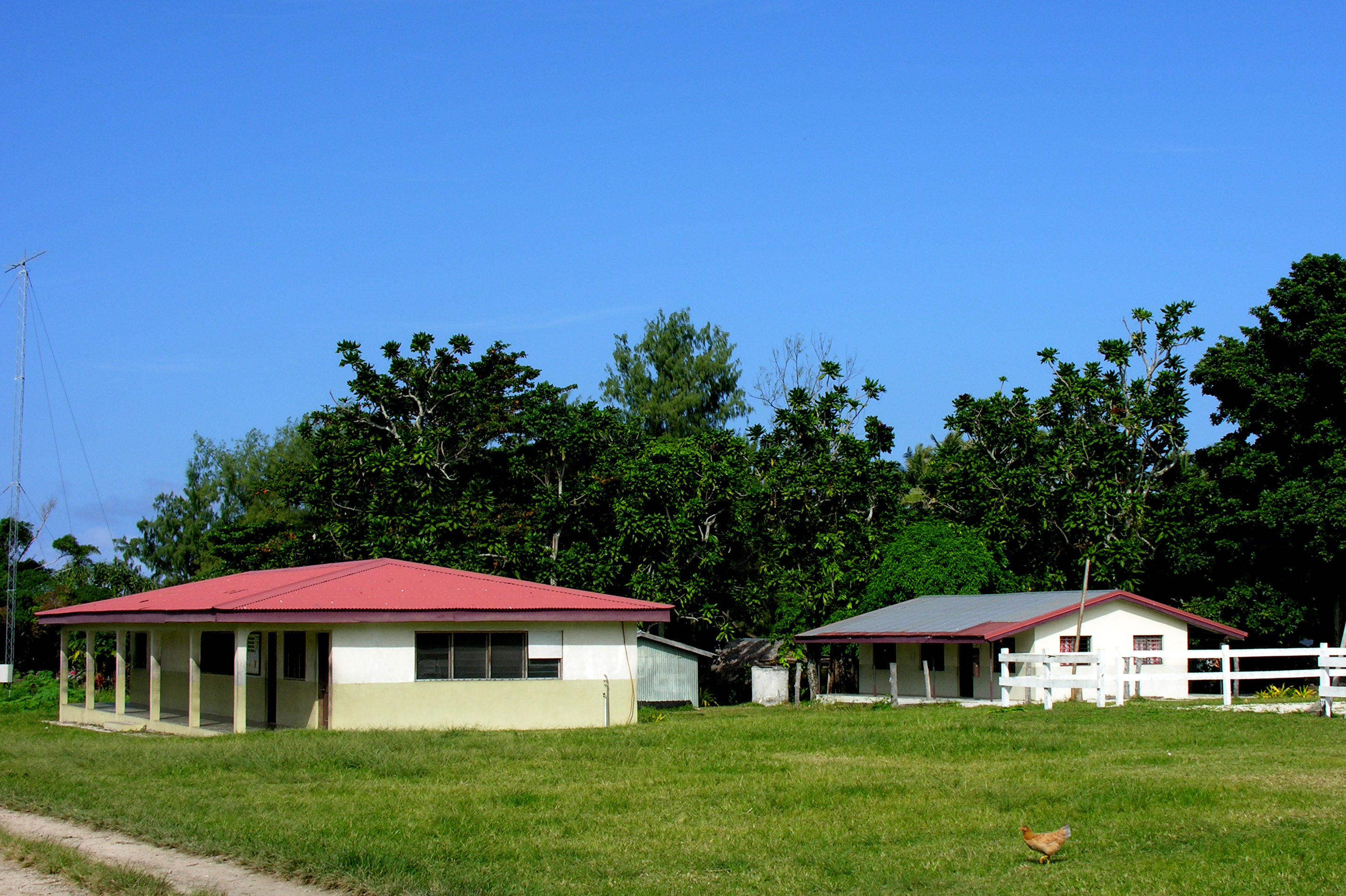 Eton school, Efate, Vanuatu